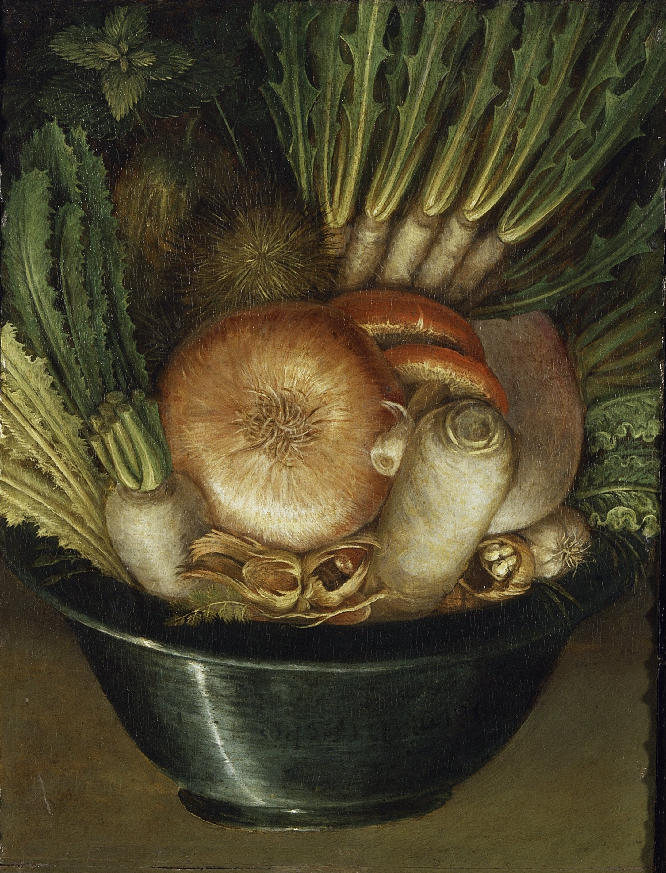 Portrait with Vegetables (The Greengrocer)